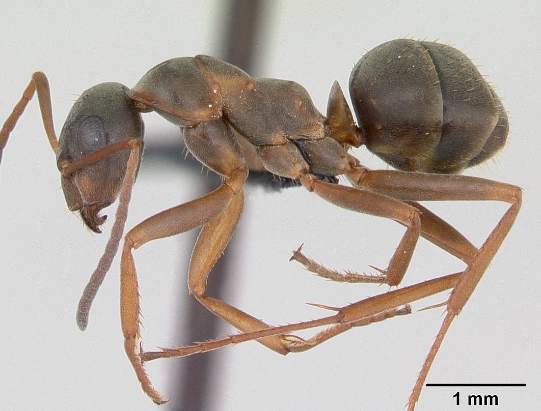 Profile view of ant Formica cunicularia specimen casent0173175.